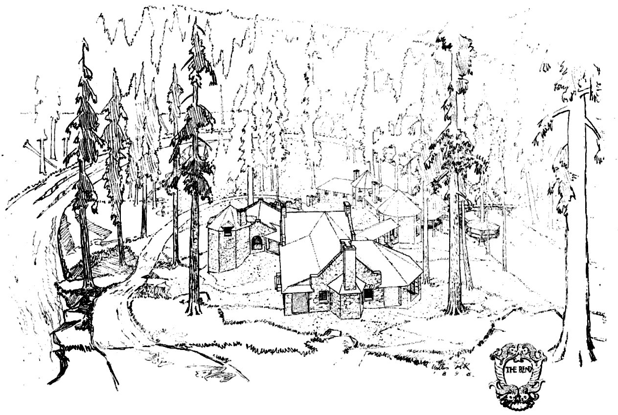 Architectural sketch made by Willis Polk for his client Charles Stetson Wheeler, illustrating the building project known as "The Bend" on the McCloud River near Mount Shasta in Northern California. This Shingle-style building was torn down by William Randolph Hearst and rebuilt by Julia Morgan to be a Gothic stone building. The Wheeler Ranch land on which this was sited was purchased by Hearst and joined with the Wyntoon property.